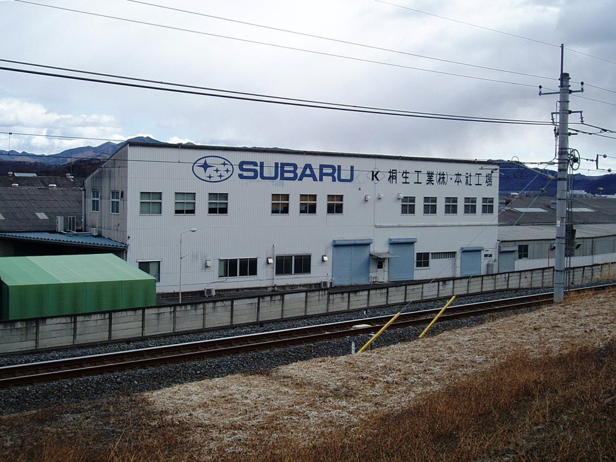 Main factory of Kiryu-Kougyo Co., Ltd. viewed across Watarase Keikoku Railway and Tobu Kiryu Line.Located in Aioi-cho, Kiryu, Gunma, Japan.